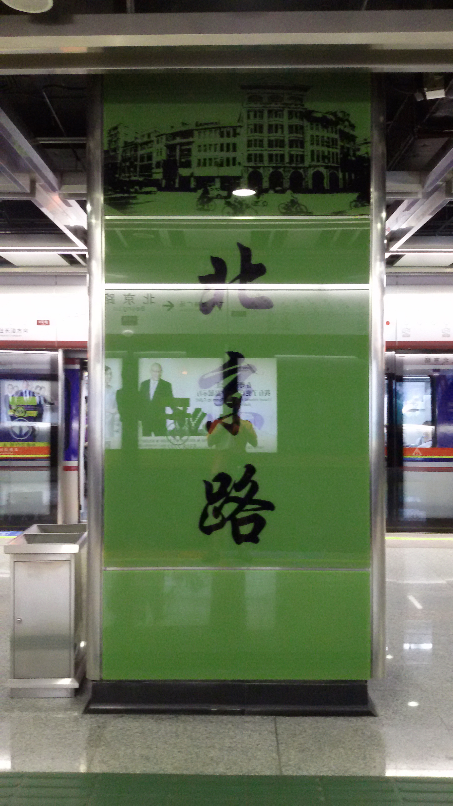 WORD on PILLAR for Beijing Lu Station in Guangzhou Metro.